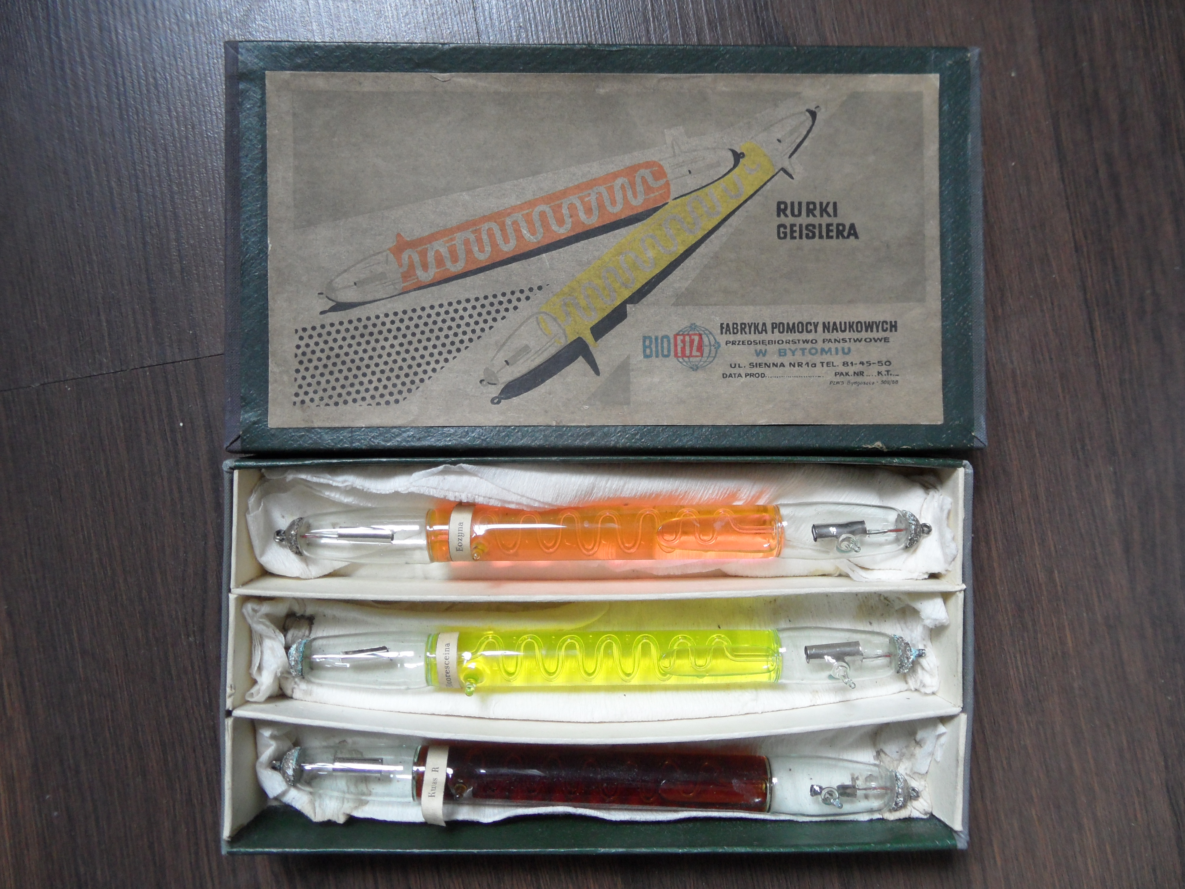 Geissler tubes